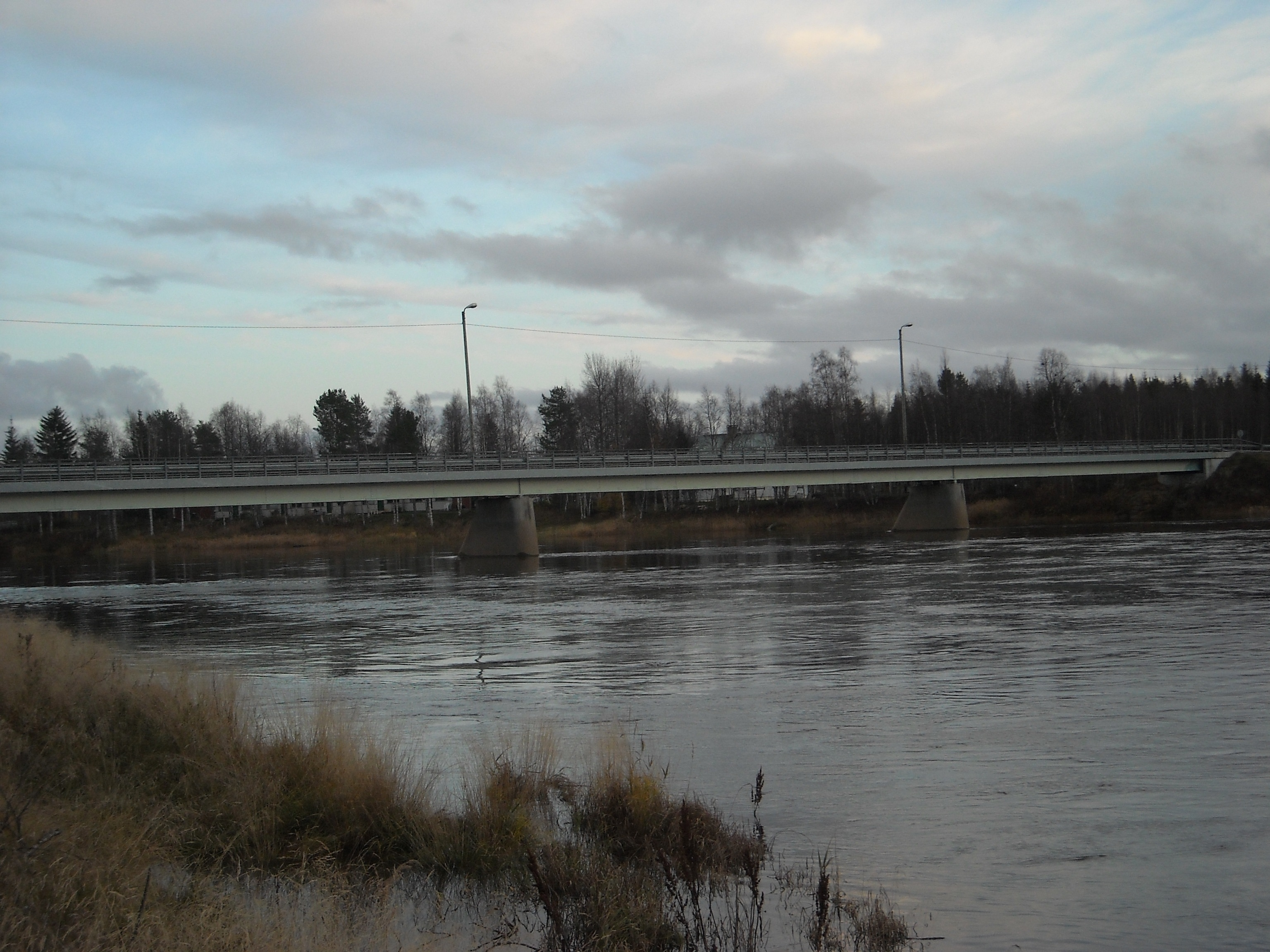 The Kolari Bridge over Muonionjoki River on the local road 19718 in Kolari, Finland.